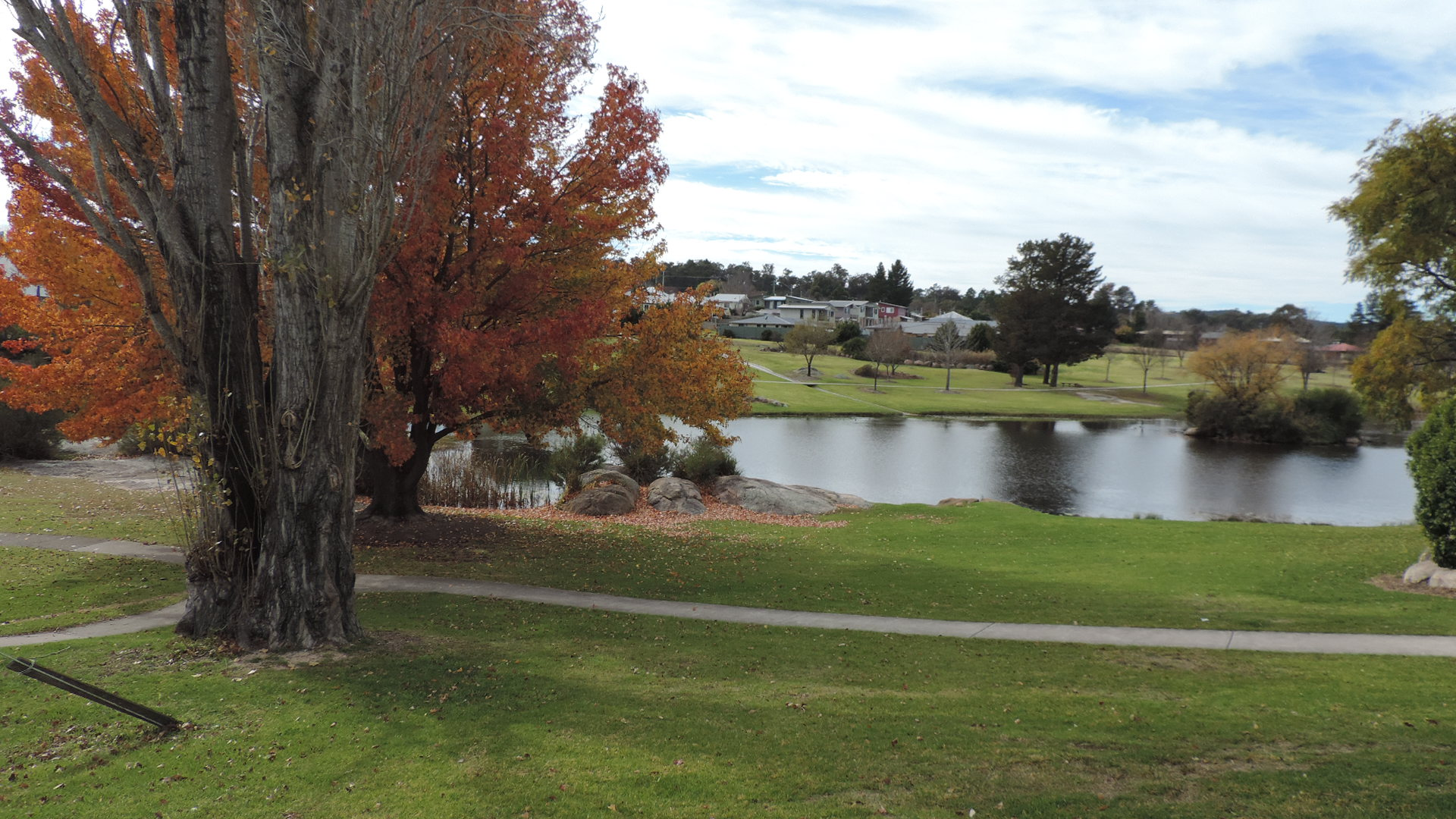 Park around Quart Pot Creek, Stanthorpe, 2015